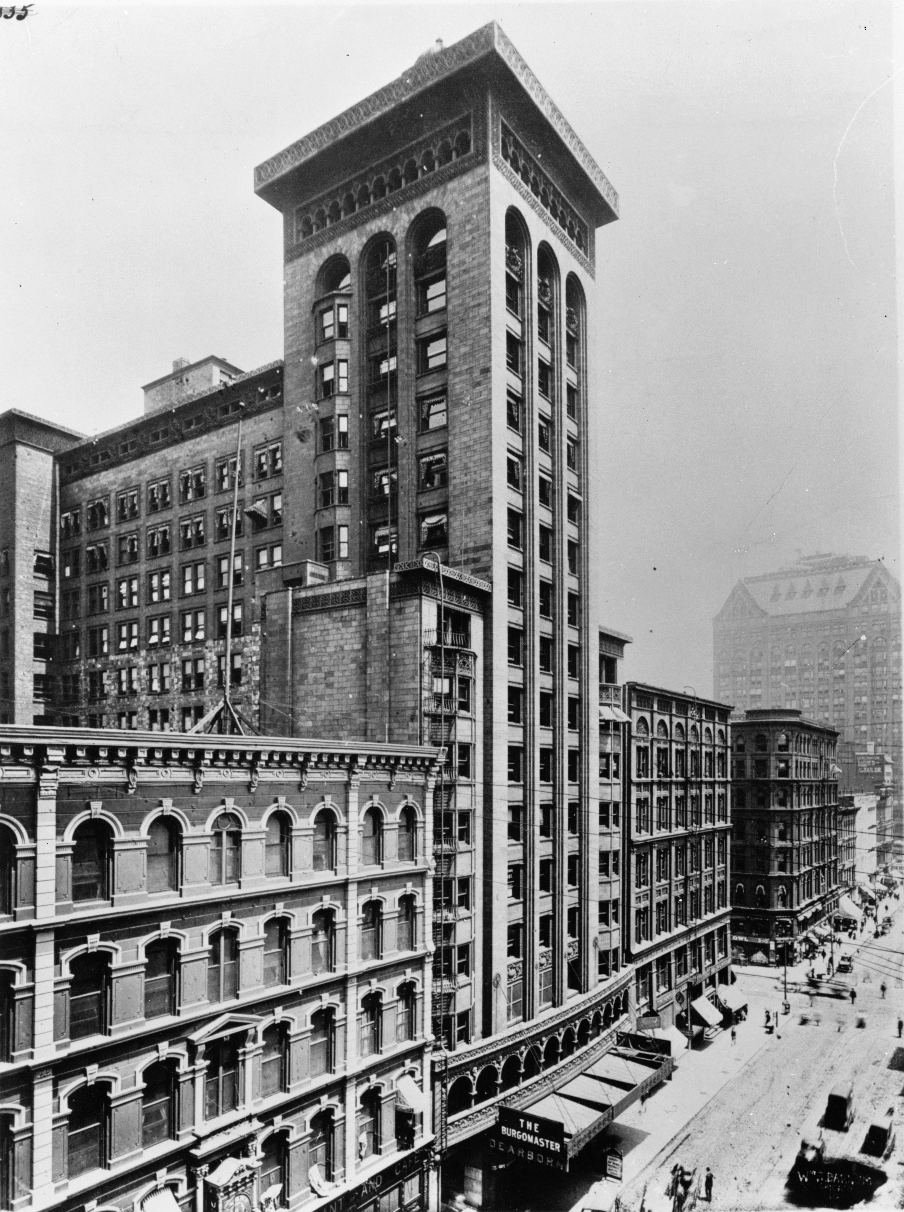 The Schiller Theater Building was designed by Louis Sullivan and Dankmar Adler of the firm Adler & Sullivan for the German Opera Company. Original LOC image description: 7. Historic American Buildings Survey PHOTOCOPY OF PHOTOGRAPH C.1900 - Schiller Building, 64 West Randolph Street, Chicago, Cook County, IL